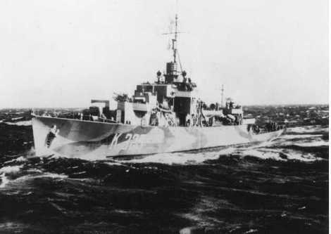 River class frigate HMCS St. Catherines